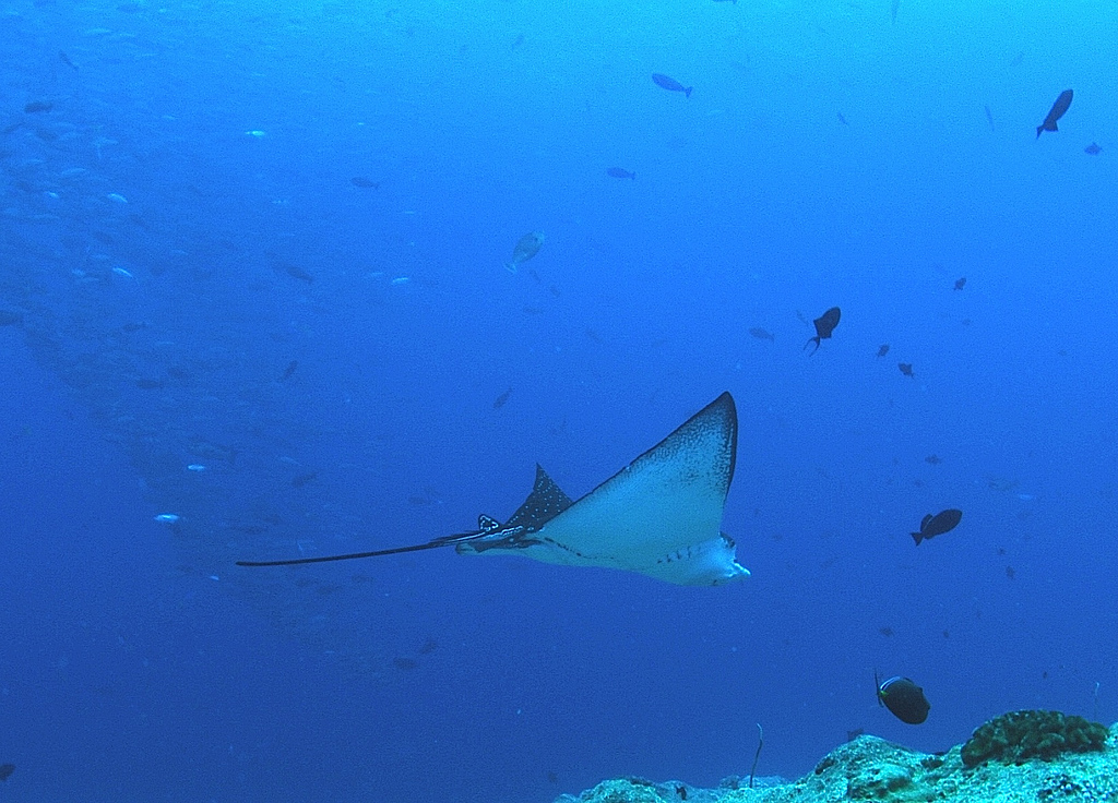 Spotted eagle ray (Aetobatus ocellatus) at Palau.